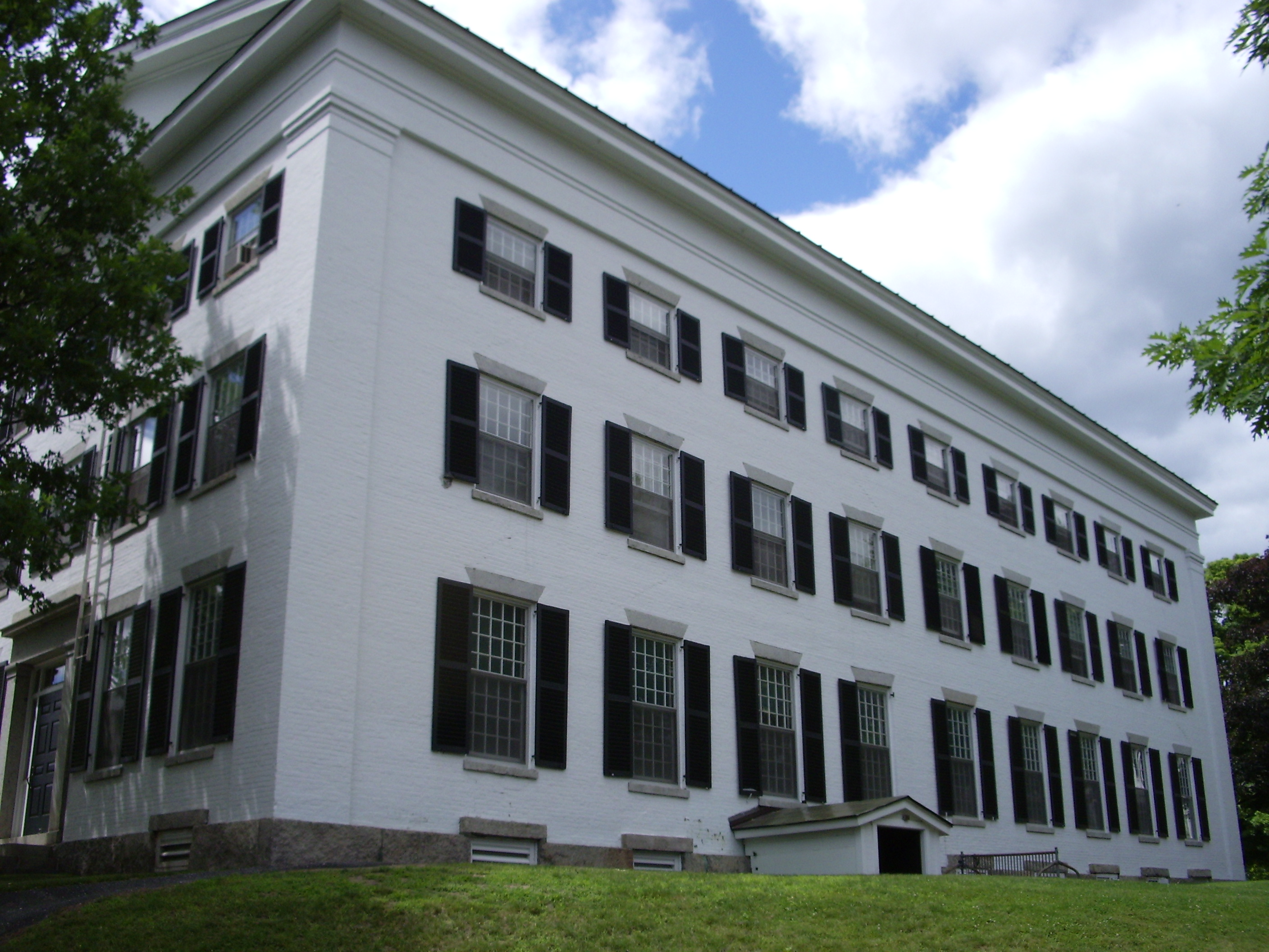 Photograph of Reed Hall at the campus of Dartmouth College in Hanover, New Hampshire.